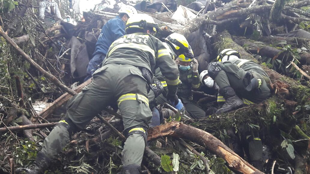 Rescue workers of the National Police of Colombia at the crash site of LaMia Airlines Flight 2933, near La Unión, Antioquia.